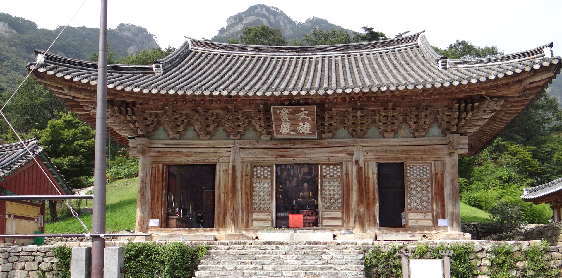 Naesosa Daeungjeon, the main worship hall built in 633 totally without nails is Treasure #291 - Naesosa in Buan County, North Jeolla Province, South Korea was built in 633 CE and was rebuilt in 1633. Originally called Soraesa, around the Imjin War the temple changed its name to Naesosa.